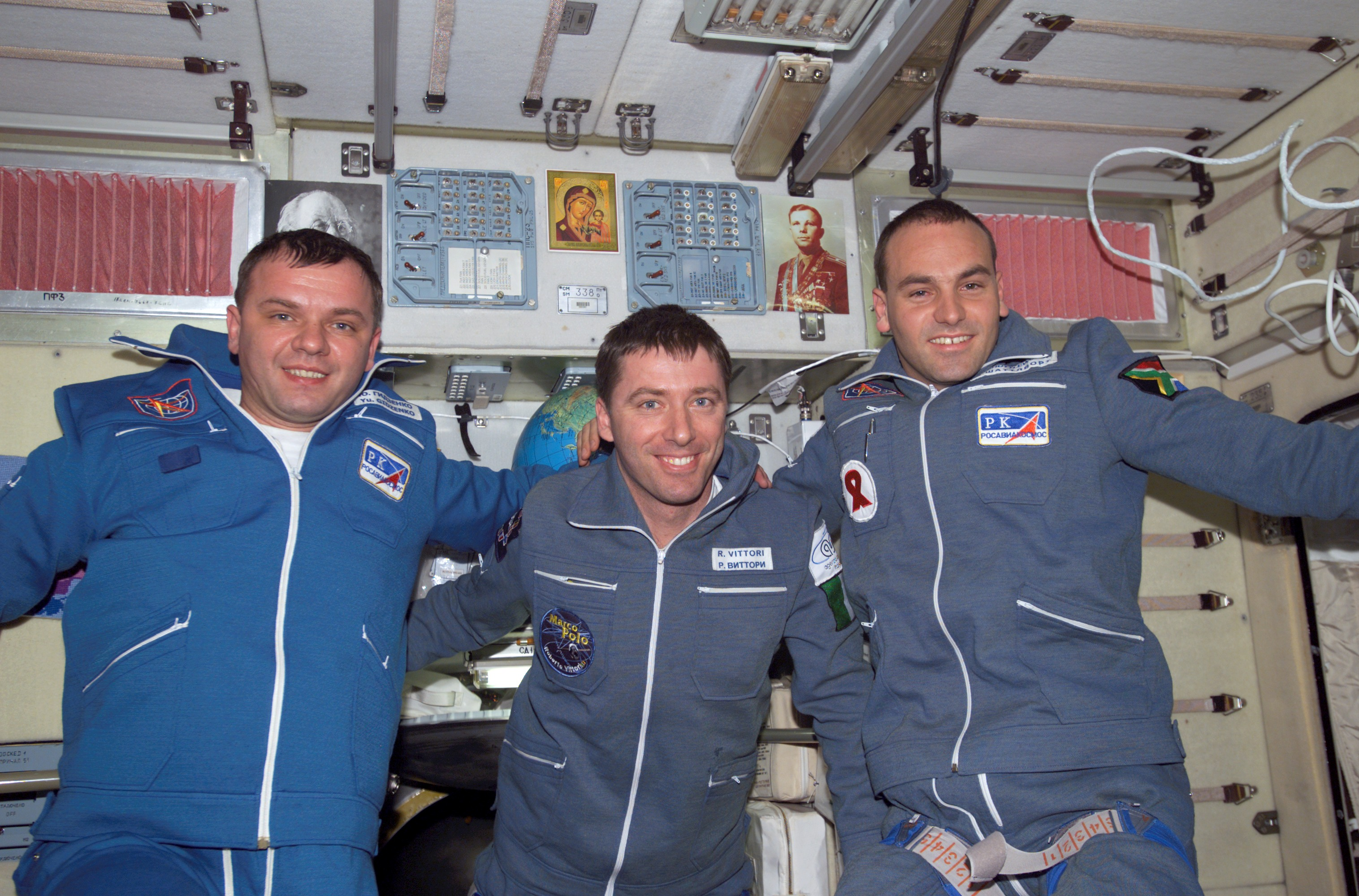 The Soyuz Taxi crewmembers pose for a group photo in the Zvezda Service Module on the International Space Station (ISS). The “taxi” crew arrived at the orbital outpost on April 27, 2002 at 2:56 a.m. (CDT) as the two vehicles flew over Central Asia. Gidzenko represents Rosaviakosmos. From the left are Commander Yuri Gidzenko, who was a member of the first resident crew of the ISS; Flight Engineer Roberto Vittori of the European Space Agency (ESA); and South African space flight participant Mark Shuttleworth. Visible in the background is a portrait of cosmonaut Yuri Gagarin posted in the module.